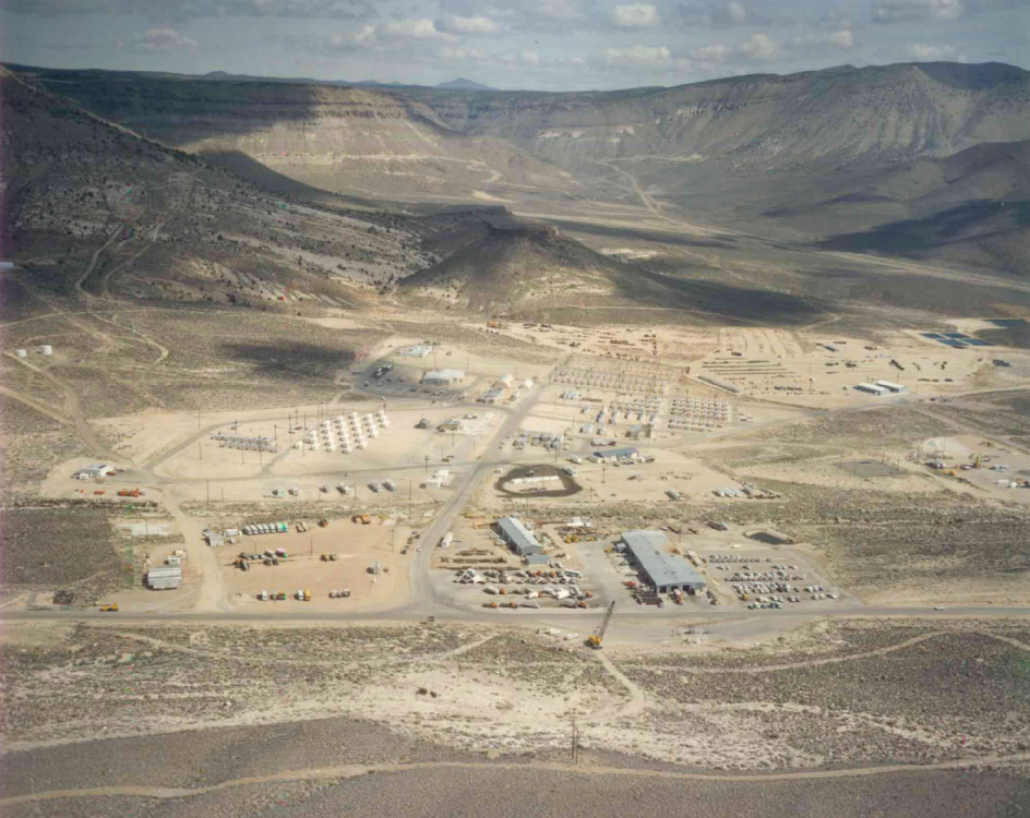 Nevada Test Site. The Area 12 Camp supports miners working in the tunnels in Rainier Mesa as well as persons working at the extreme northwest end of NTS. The camp has overnight accommodations for 600 persons a cafeteria that seats 320 persons, recreation hall, theater, heavy duty equipment repair shop and office trailers.